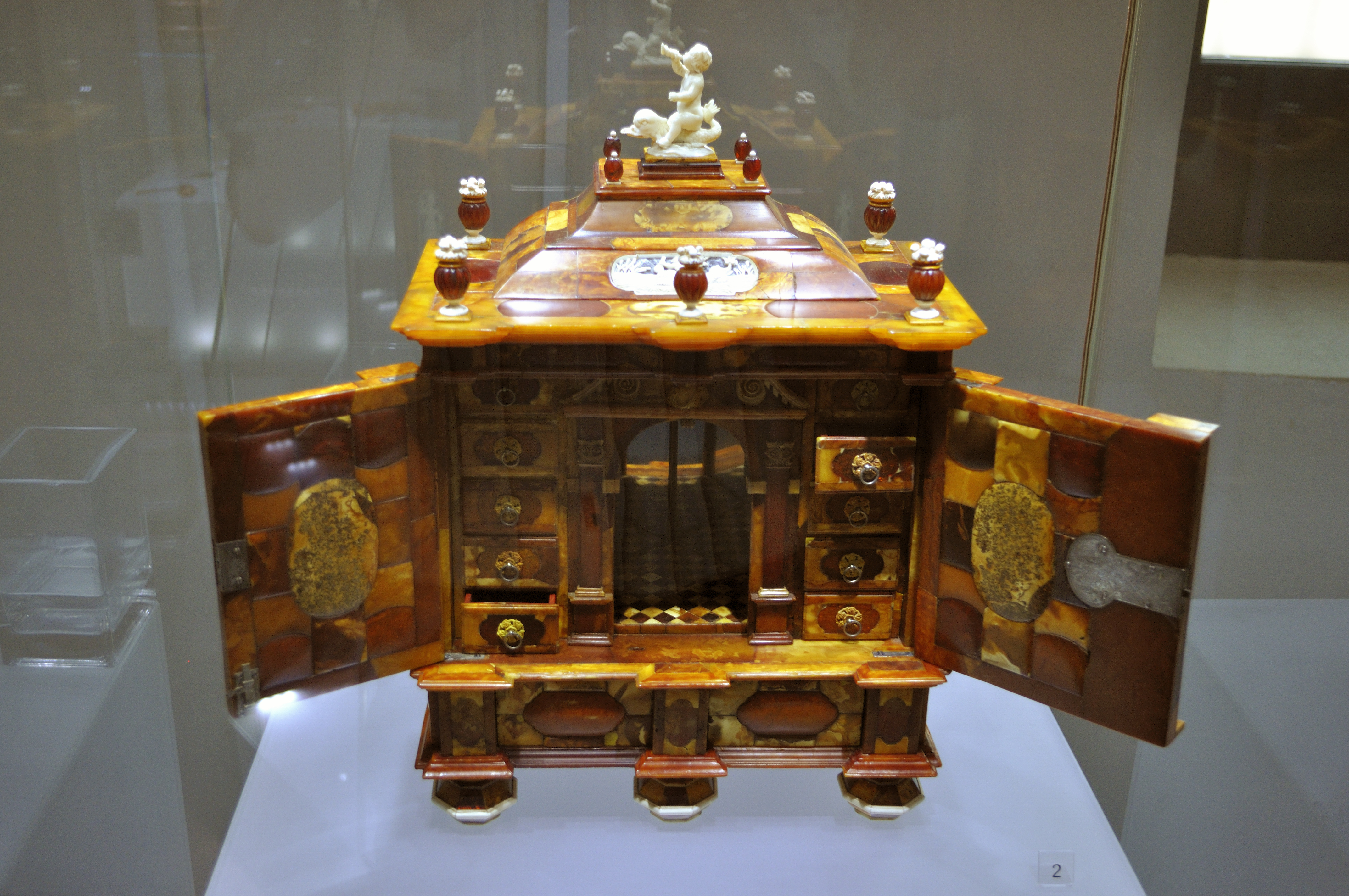 Picture taken in Gdańsk after Wikimania 2010 conference.